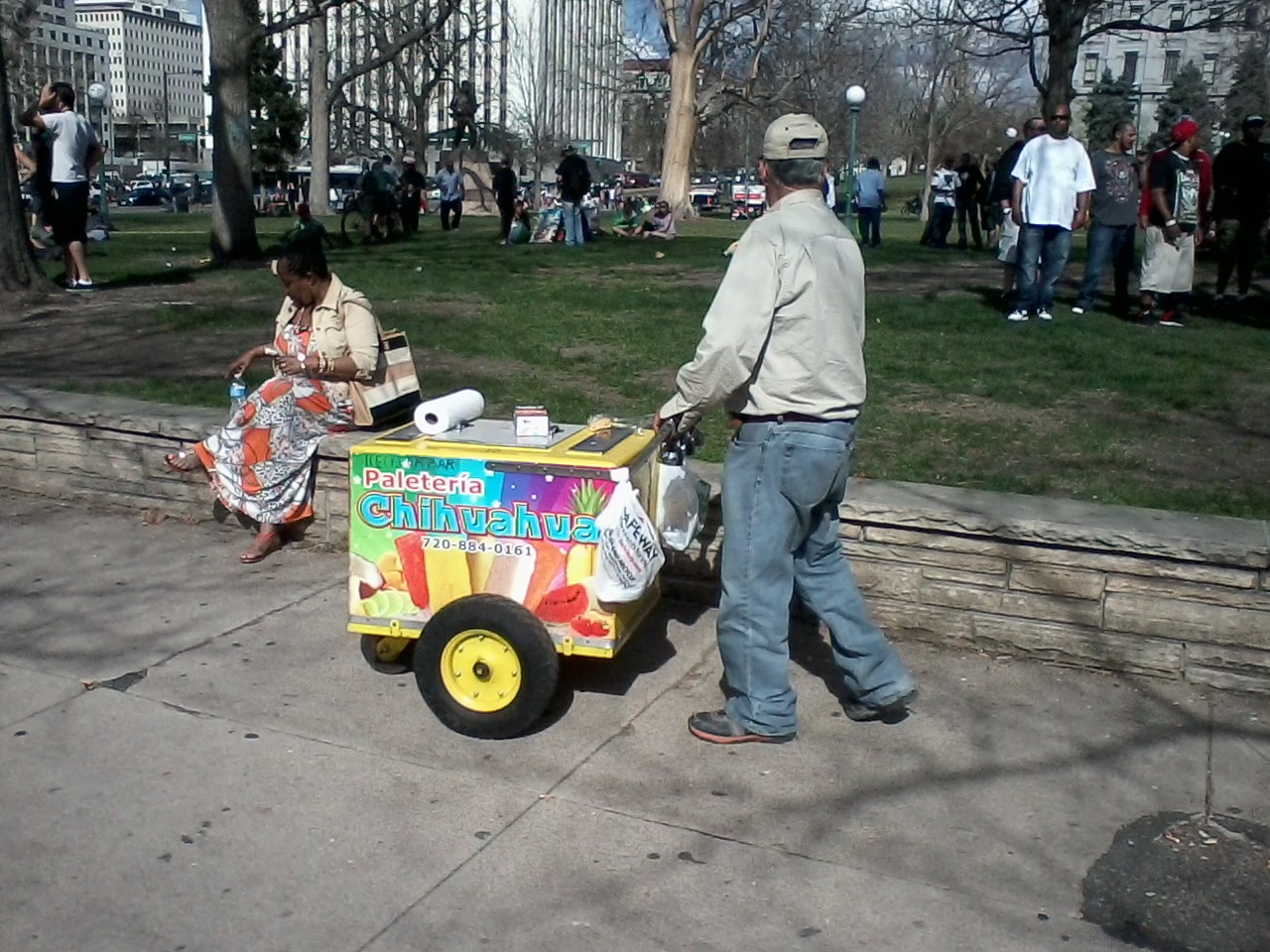 Paletería (ice lolly seller) on Broadway in Denver, Colorado during the official 420 Rally in Civic Center Park in 2014.